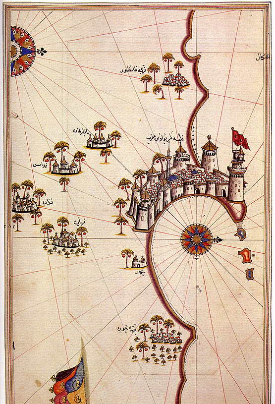 Tripoli in Libya on the Kitab-Ä± Bahriye (Book of Navigation) of Piri Reis